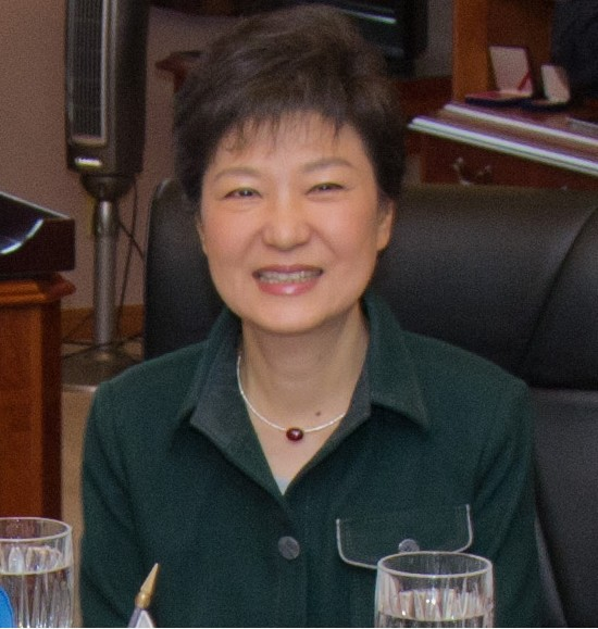 Gen. James D. Thurman, United Nations Command, Combined Forces Command, United States Forces Korea commander, Gen. Kwon Oh Sung, Combined Forces Command deputy commander and Amb. Sung Kim, United States Ambassador to South Korea welcome South Korea president elect Park Geun-hye to Combined Forces Command Headquarters on United States Army Garrison Yongsan, South Korea, Feb. 22, 2013. U.S. Army Photo by Sgt. Brian Gibbons